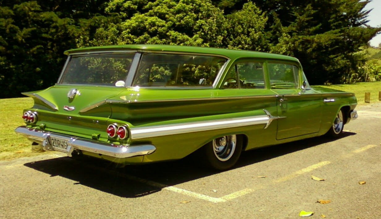 Rare 1960 Chevrolet Brookwood Station Wagon. Location New Zealand